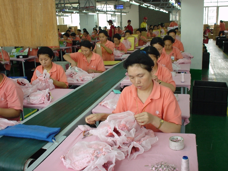 Toy factory in China